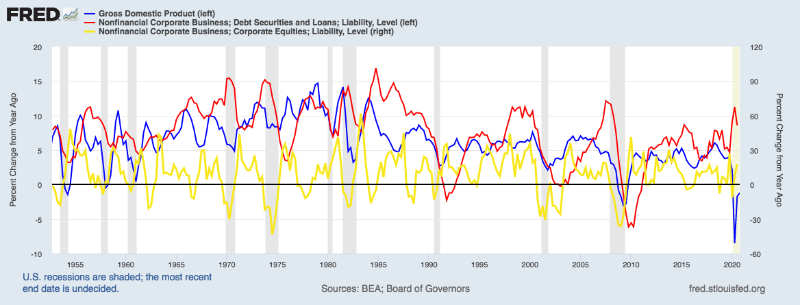 US. Bureau of Economic Analysis, Gross Domestic Product [GDP], retrieved from FRED, Federal Reserve Bank of St. Louis July 22, 2015. Board of Governors of the Federal Reserve System (US), Nonfinancial Corporate Business; Credit Market Instruments; Liability, Level [TCMILBSNNCB], retrieved from FRED, Federal Reserve Bank of St. Louis July 22, 2015. Board of Governors of the Federal Reserve System (US), Nonfinancial Corporate Business; Corporate Equities; Liability, Level [MVEONWMVBSNNCB], retrieved from FRED, Federal Reserve Bank of St. Louis July 22, 2015.